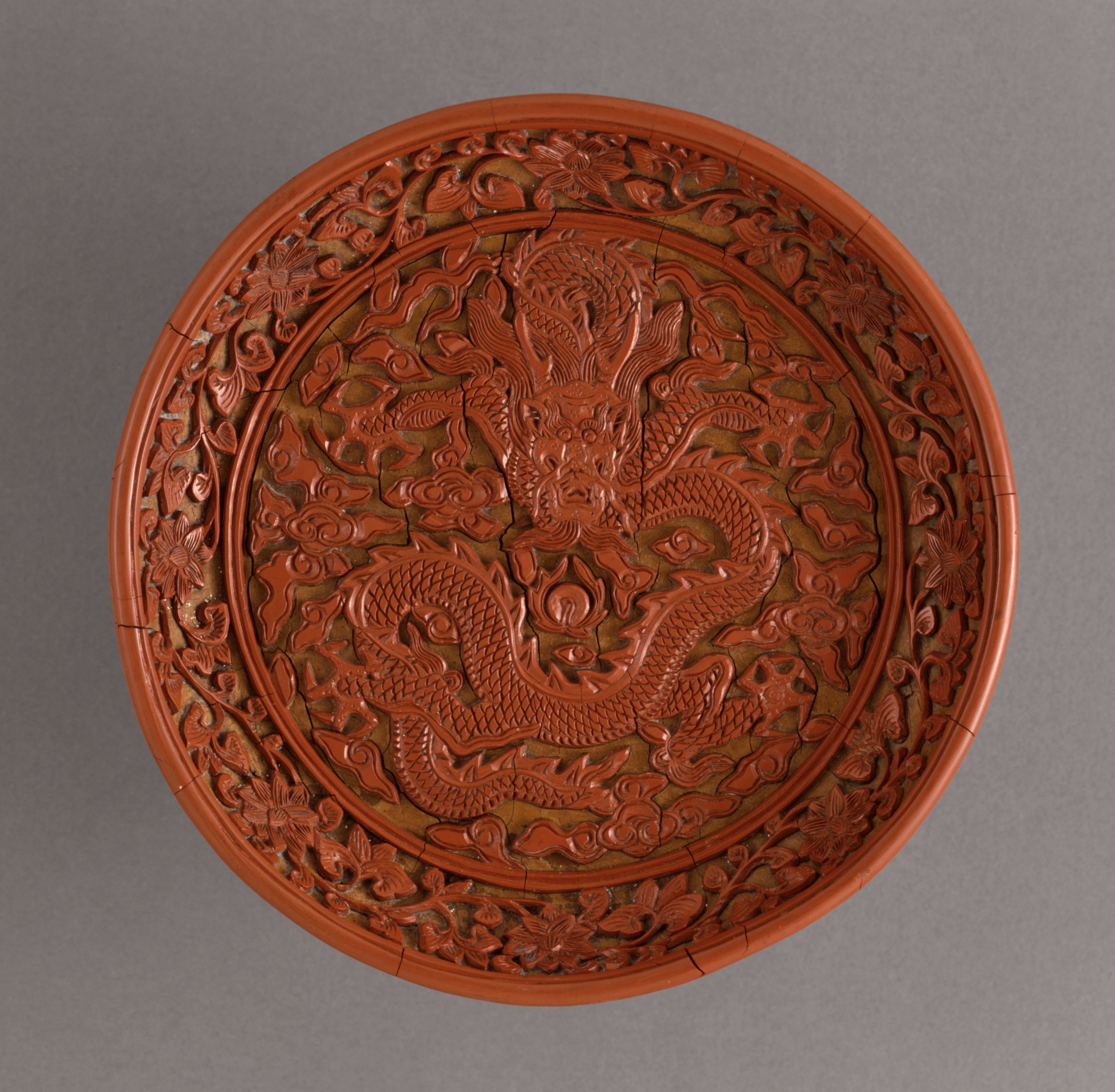 China, Chinese, Ming dynasty, Wanli mark and period, 1573-1620 Furnishings; Serviceware Carved red lacquer on wood core Height: 1 3/8 in. (3.49 cm); Diameter: 6 5/16 in. (16.03 cm) Gift of Mr. and Mrs. John H. Nessley (M.83.148.1) Chinese Art